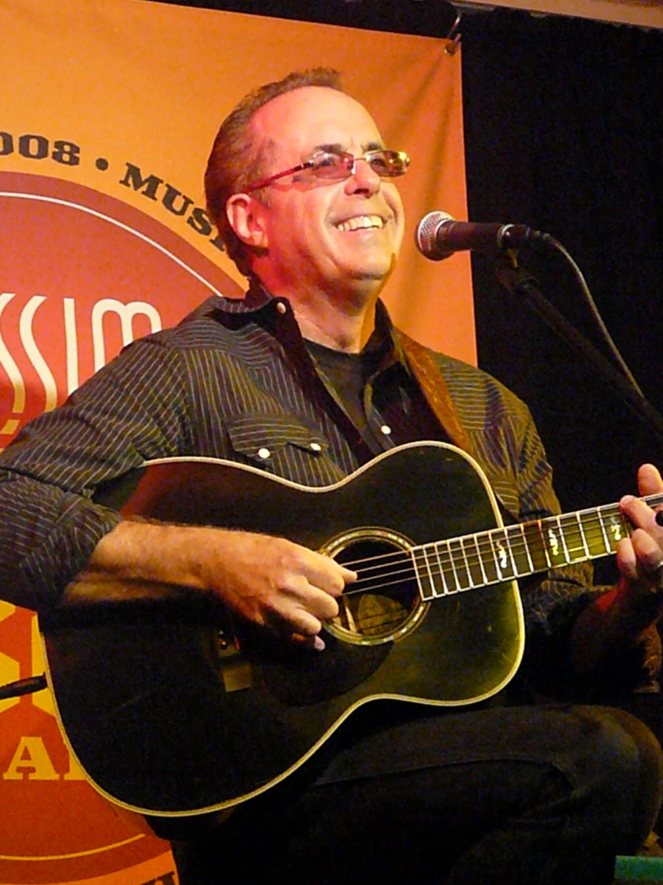 Tom Russell at Club Passim; Cambridge MA, August 22, 2008.